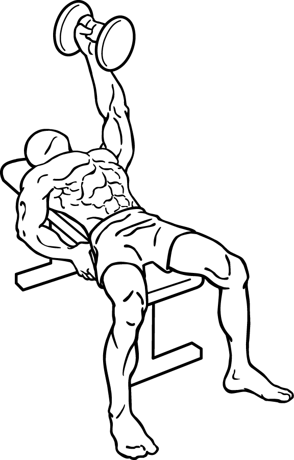 an exercise of chest